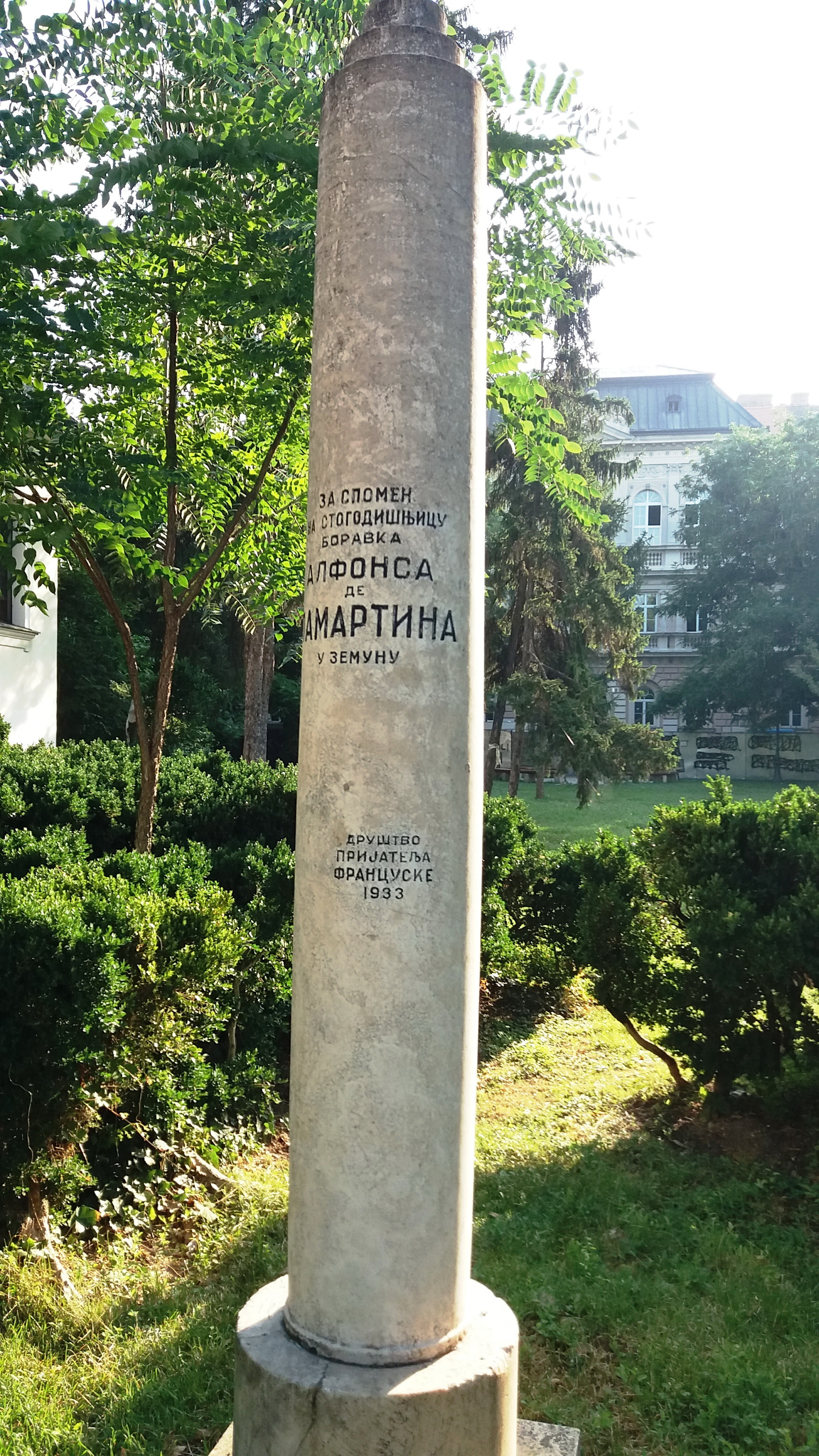 Memorial pillar to Lamartin in Zemun